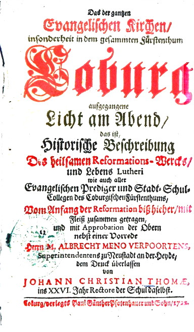 Title page of Das der gantzen Evangelischen Kirchen, insonderheit in dem gesammten Fürstenthum Coburg aufgegangene Licht am Abend / das ist, Historische Beschreibung des heilsamen Reformations-Wercks und Lebens Lutheri, wie auch aller evangelischen Prediger und Stadt-Schul-Collegen des Coburgischen Fürstenthums, vom Anfang der Reformation biß hieher